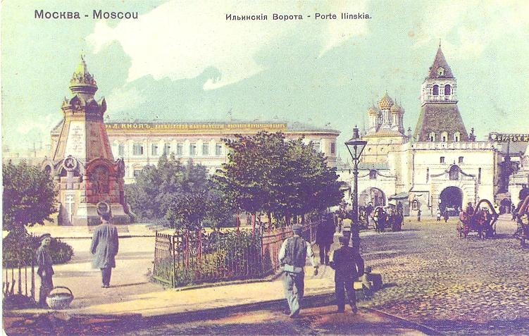 Ilyinsky Gate and Plevna Memorial